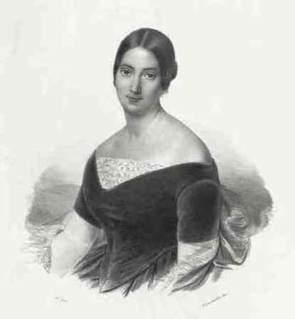 Portrait of the Italian opera singer Emilia Goggi (1817-1857)